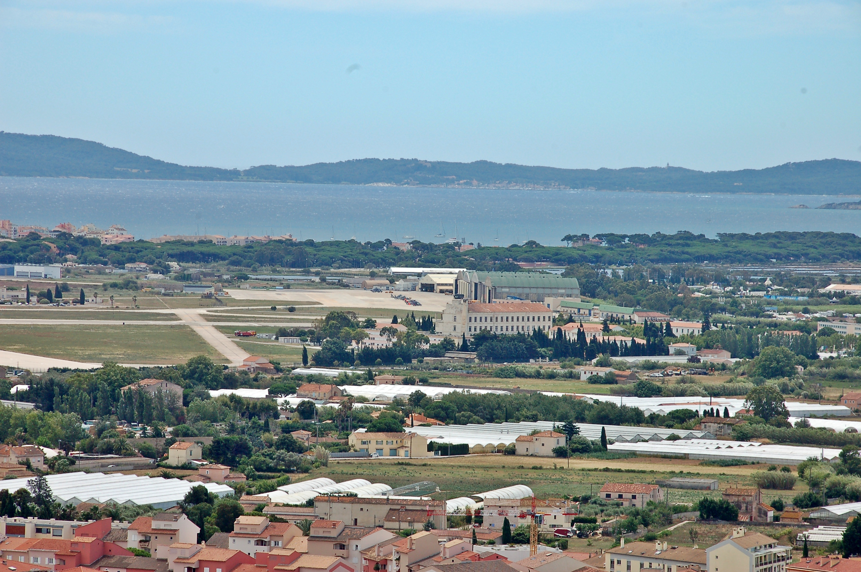 Buildings and planes of the military part of the aéroport de Toulon-Hyères